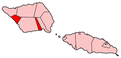 Map of Samoa showing Satupa'itea district. Made by User:Golbez.